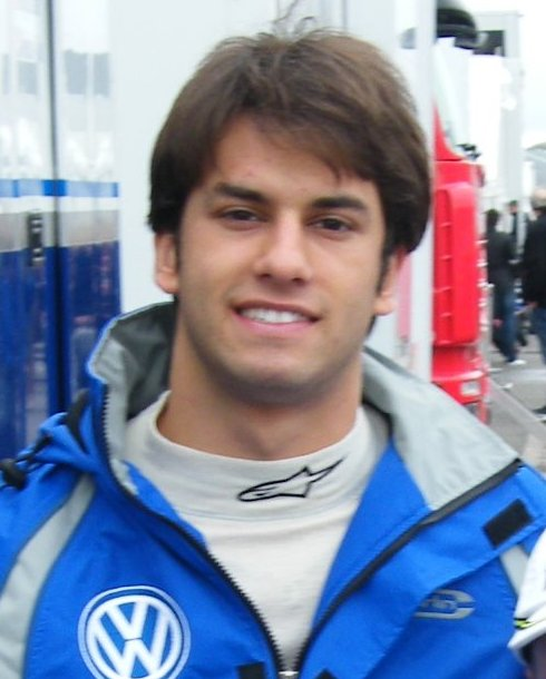 The Brazilian driver Felipe Nasr